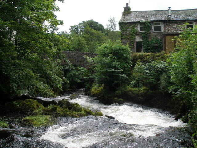 The River Sprint at Garnett Bridge The aptly-named River Sprint rushing under the Garnett Bridge.